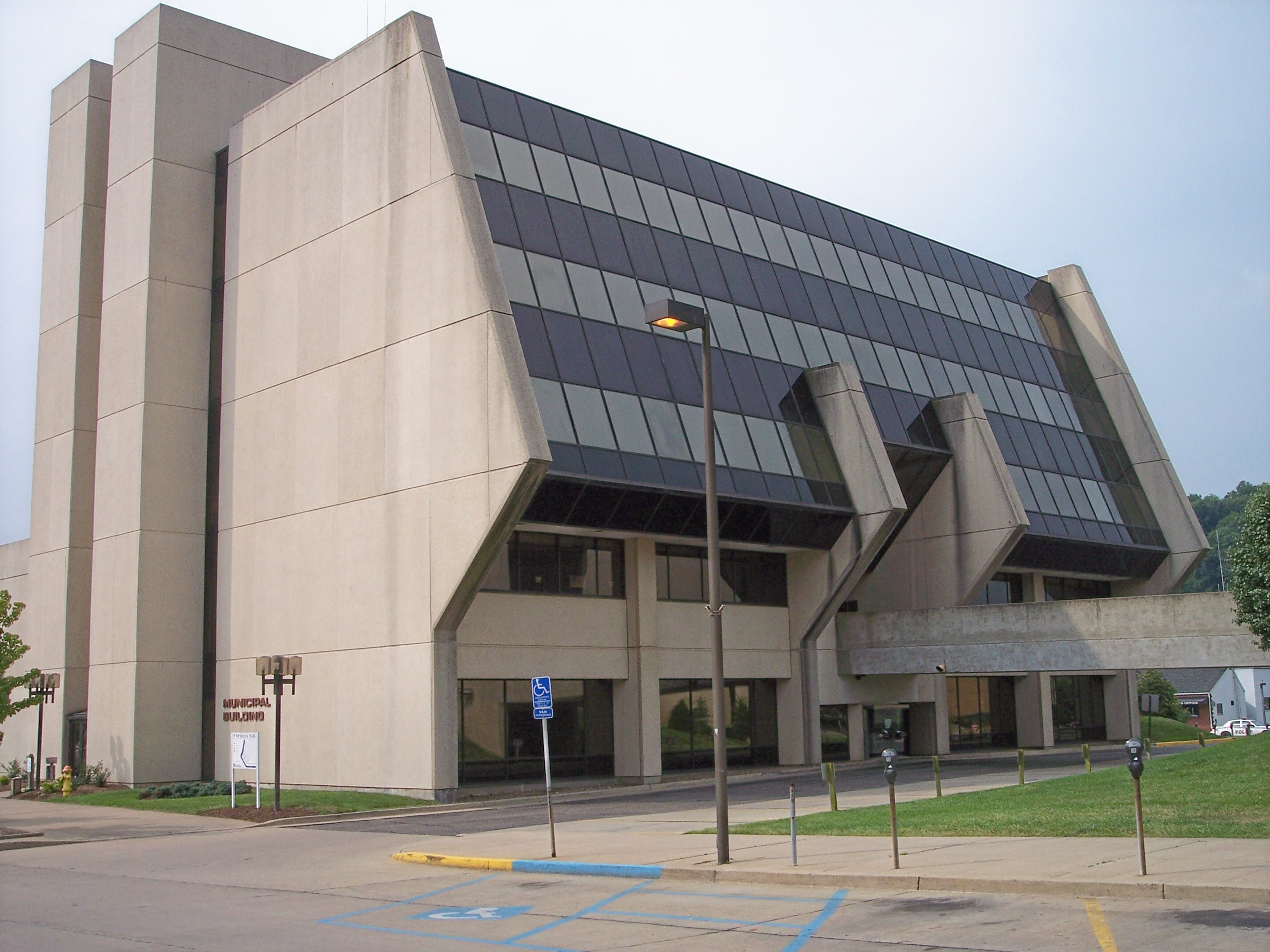 The Municipal Building of Parkersburg, West Virginia, erected 1979 according to its cornerstone